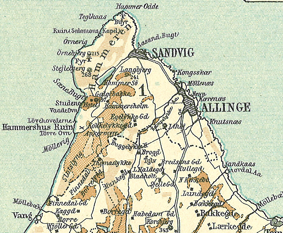 Map of the northend of Bornholm with Hammershus (Denmark)